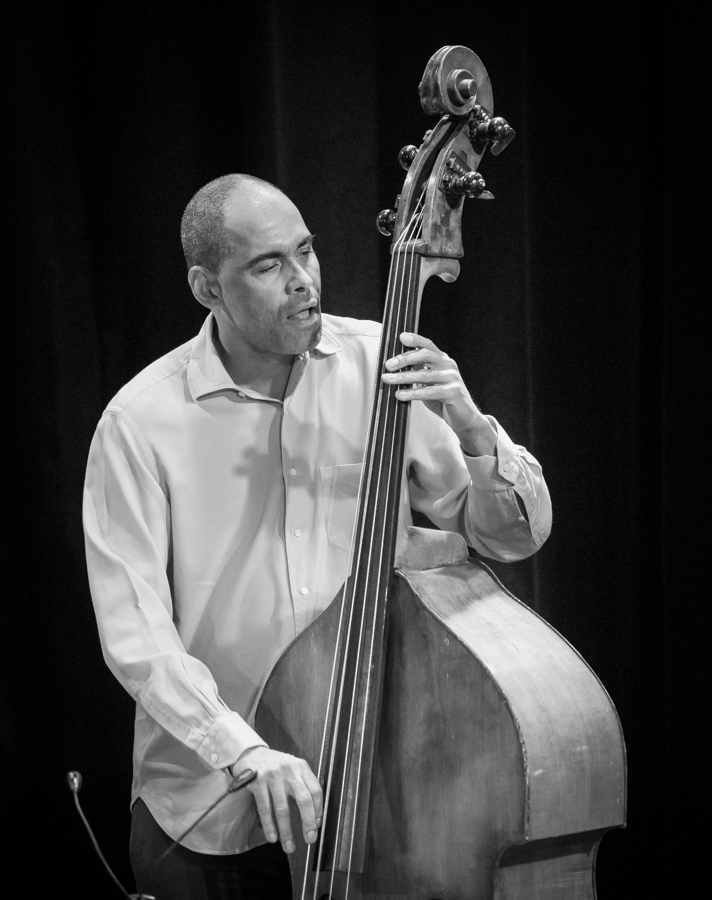 Ugonna Okegwo with Tom Harrell Trip at Victoria Teater. The concert was part of Oslo Jazzfestival and took place on 15. August 2017 in Oslo. Lineup: Tom Harrell (trumpet), Mark Turner (tenor saxophone), Ugonna Okegwo (double bass) and Adam Cruz (drums).